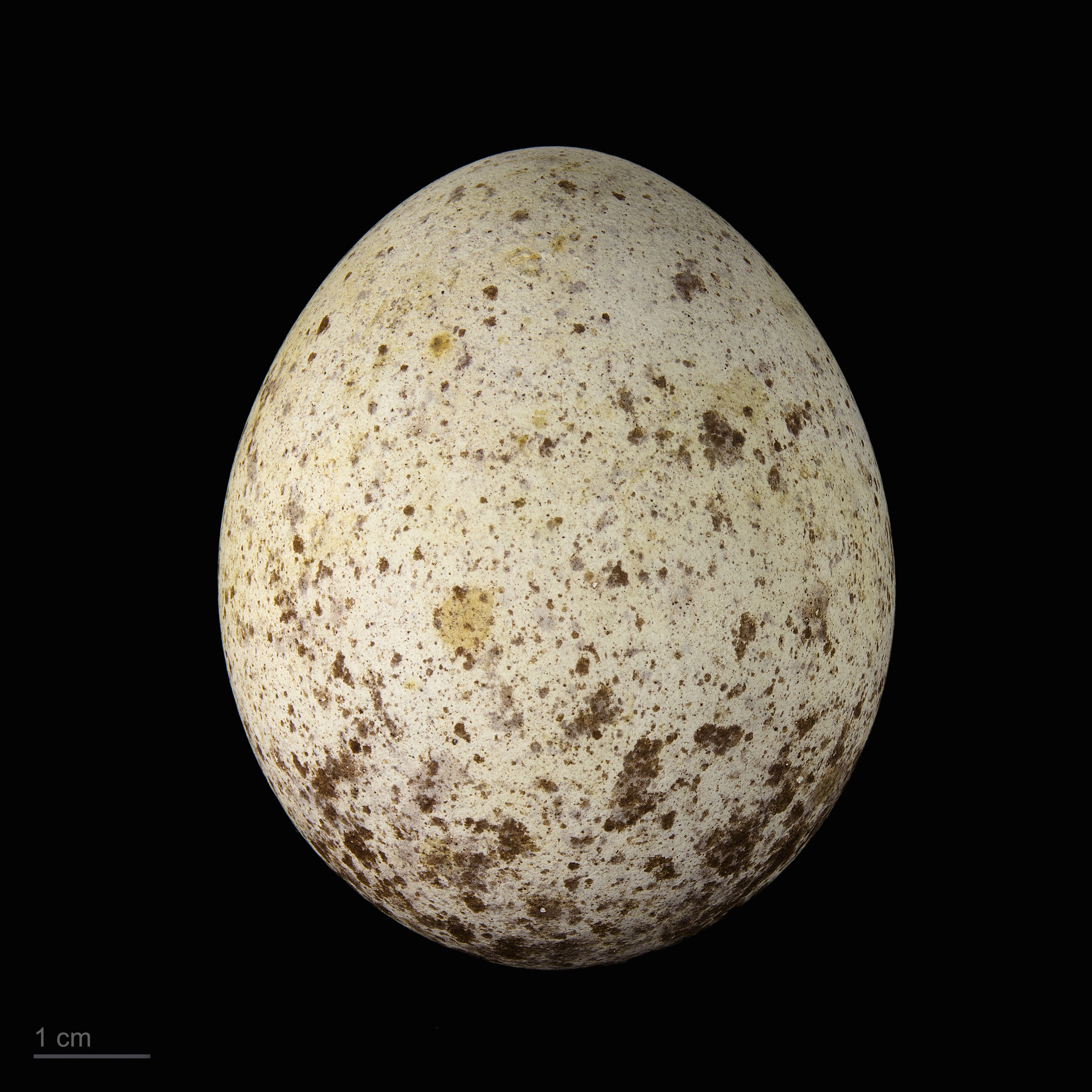 Eggs of Egyptian vulture collection of Jacques Perrin de Brichambaut.